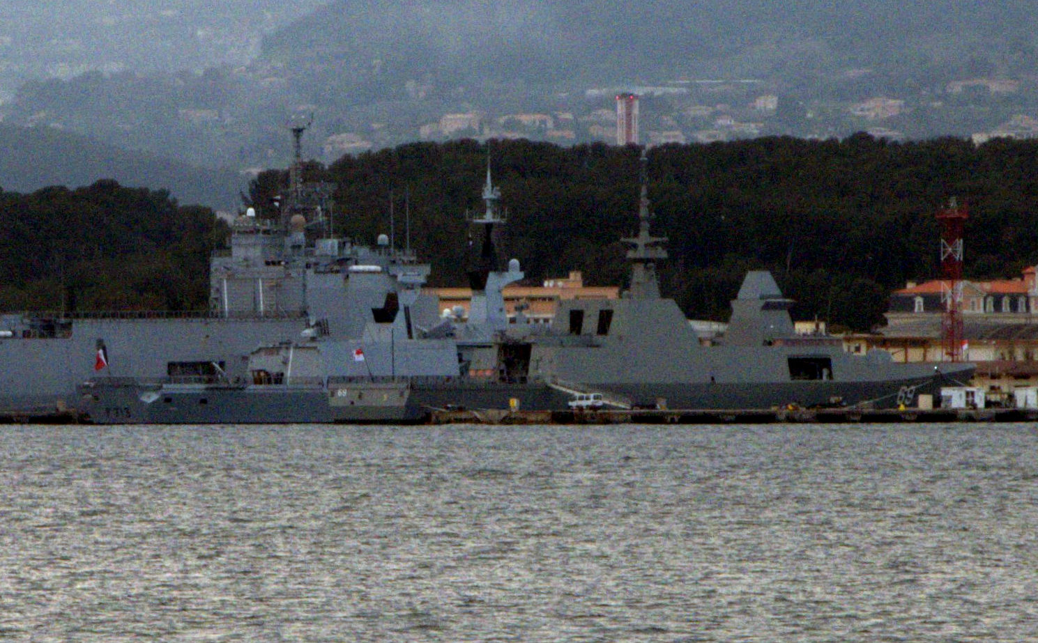 Some naval ships at Toulon harbour From foreground to background: RSS Intrepid (69), Republic of Singapore Navy Aconit (F 713)